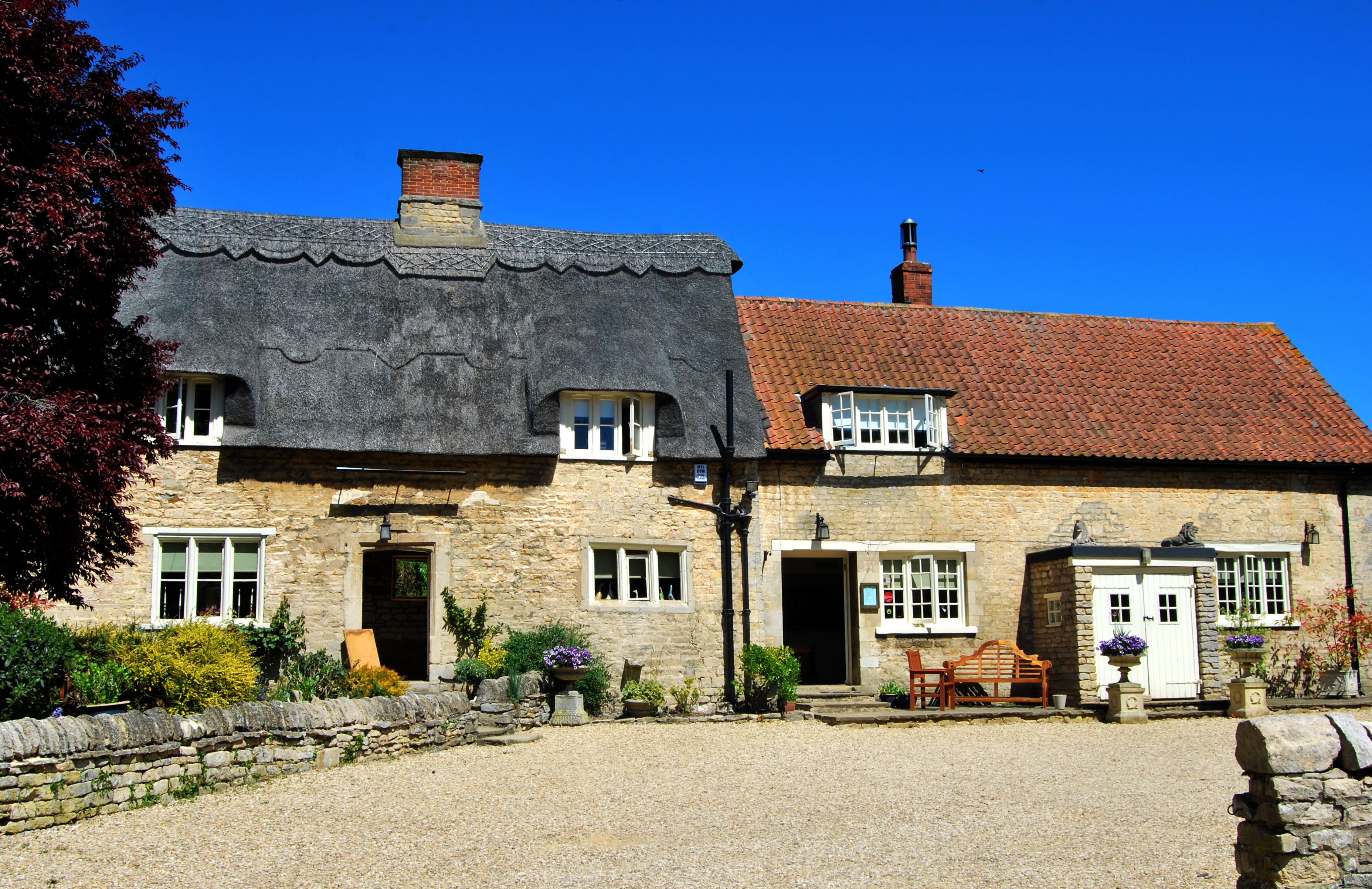 The Jackson Stops public house, Stretton, Rutland